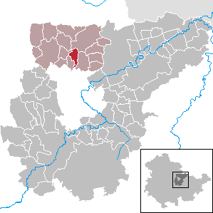 Heichelheim in Thuringia - District Weimarer Land